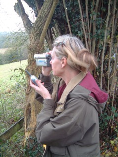 An independent hunt monitor observes a hunt, out in the countryside in England, while using a portable video recorder and a radio-handset, to communicate with other local hunt monitors.